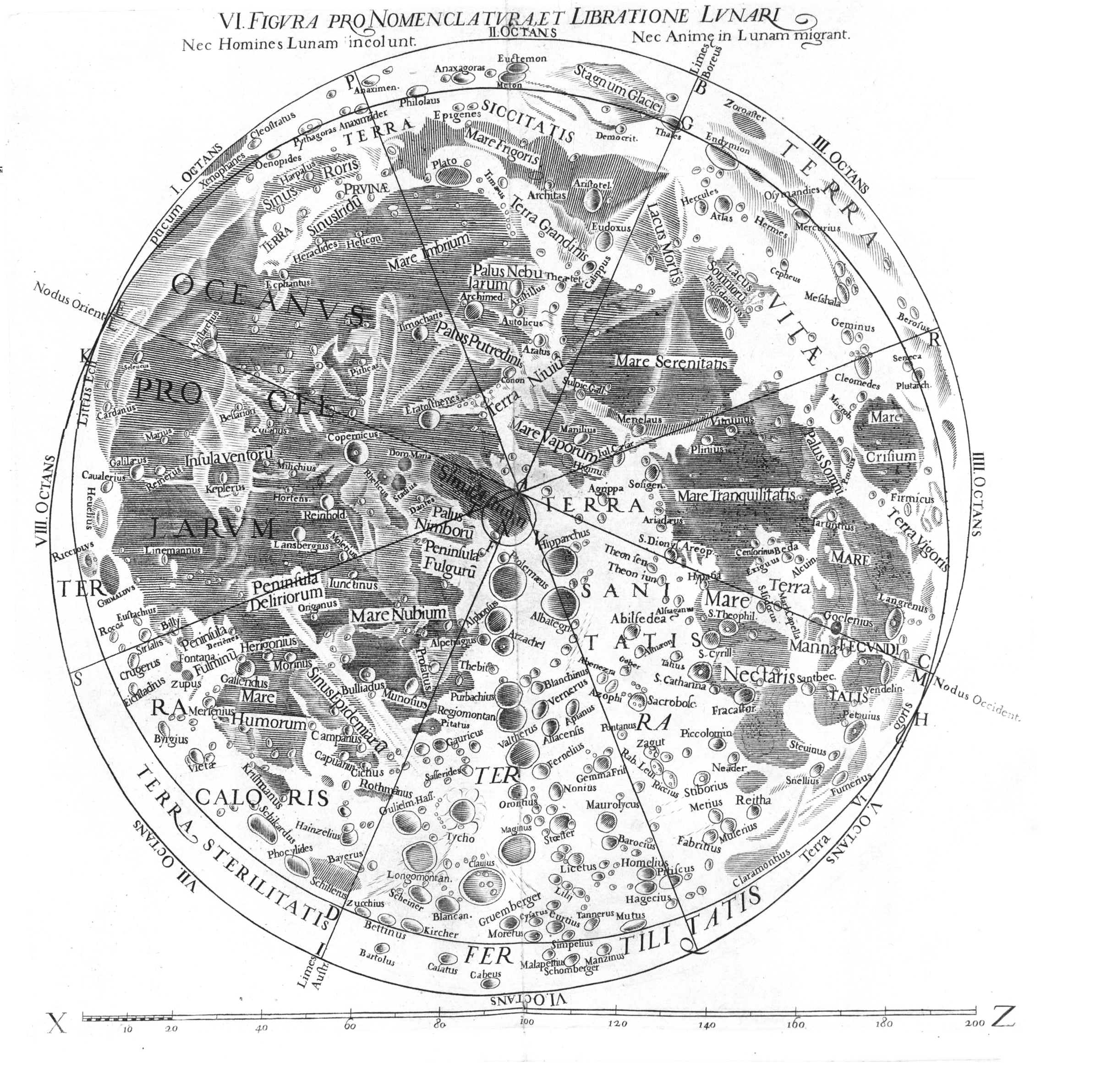 Map of the moon (Selenograph) from Almagestum novum ... (1651)